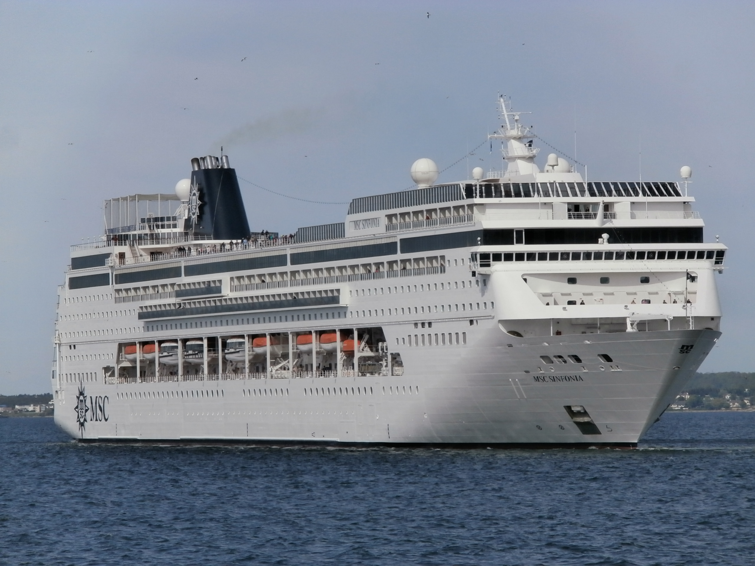 MSC Sinfonia turning to starboard side, Tallinn 27 May 2015